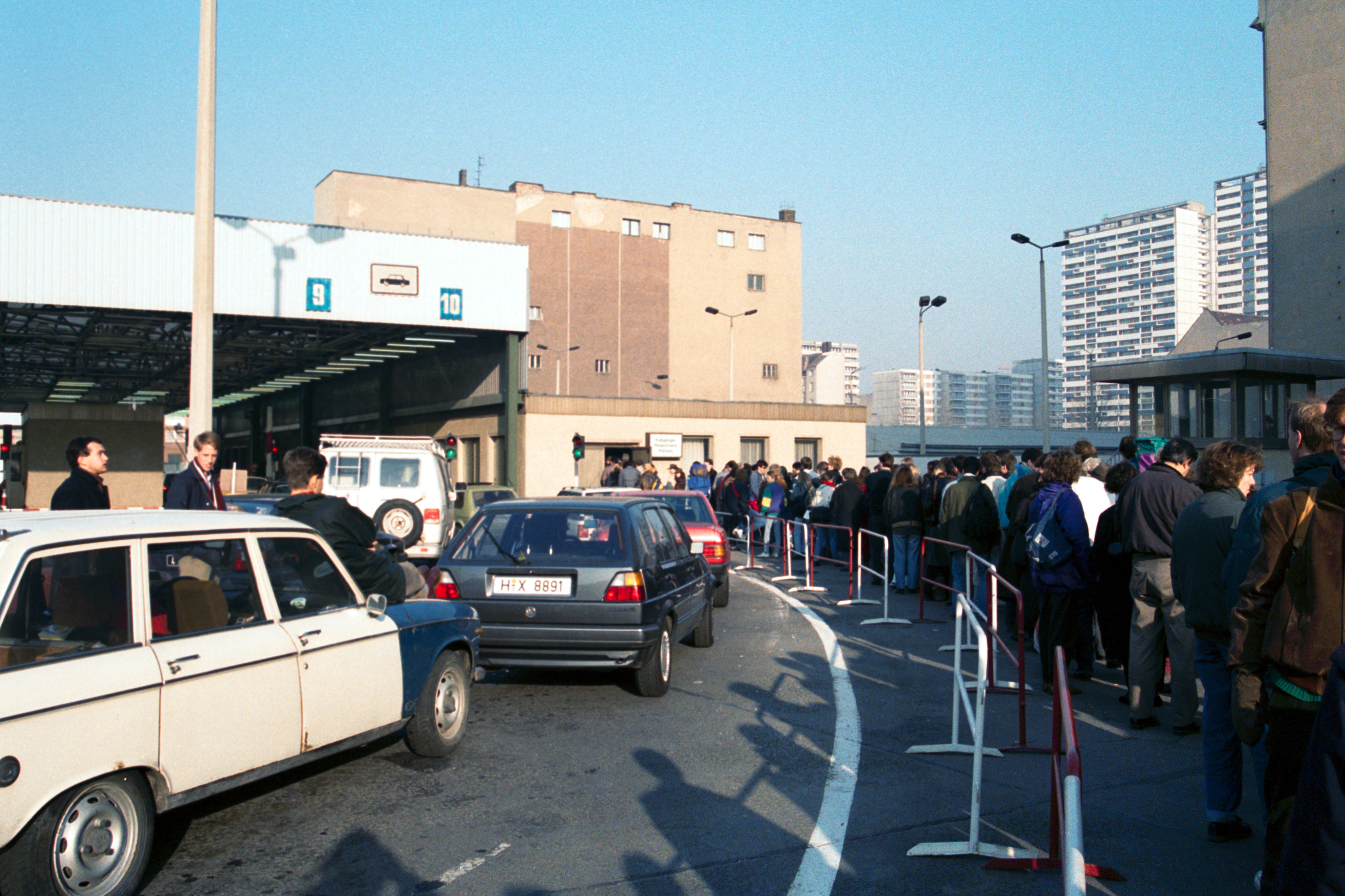 GDR border crossing Checkpoint Charlie